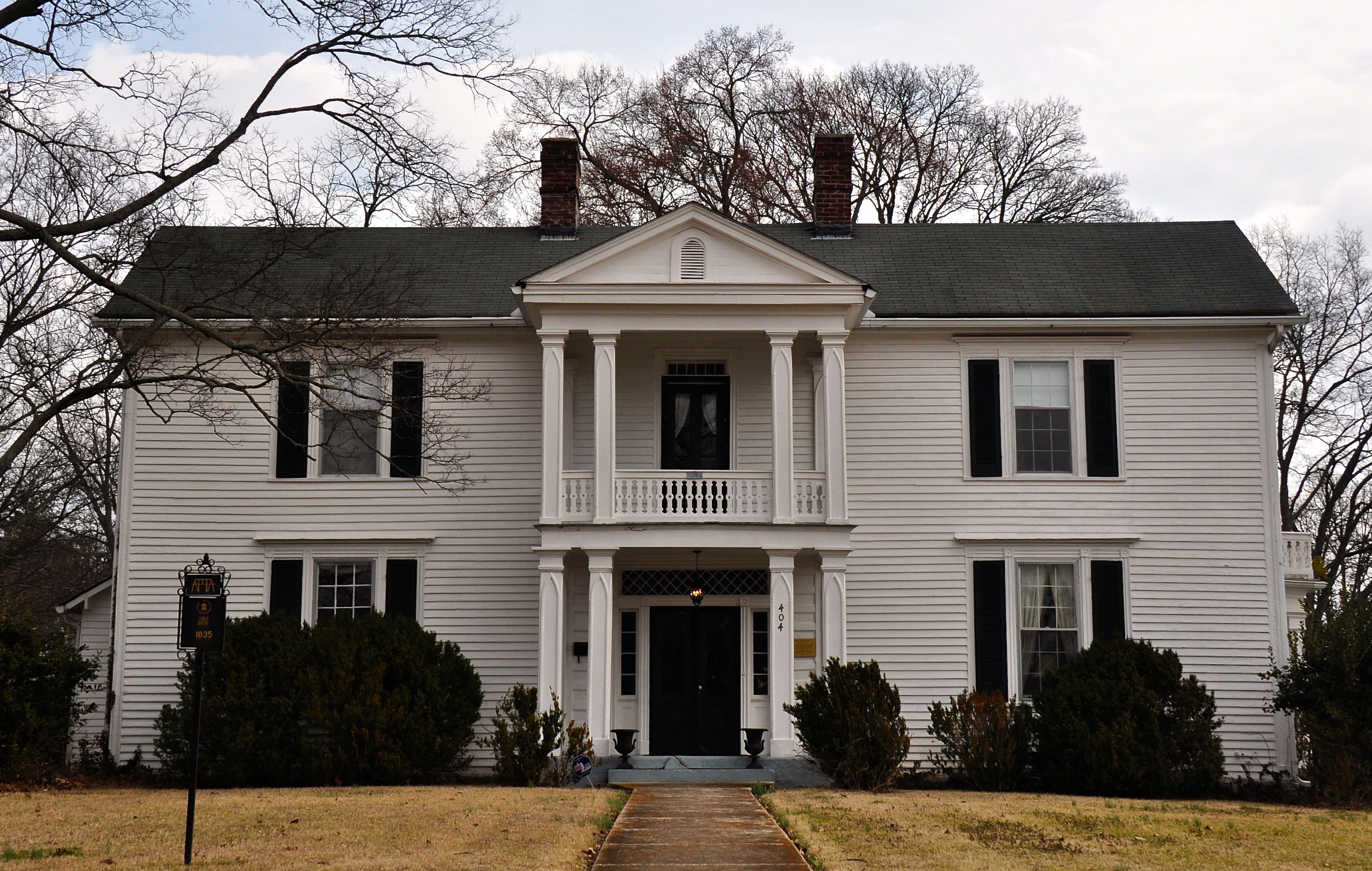 Located at Shelbyville, Bedford County, Tennessee. Added to NRHP on 12 April 1982.